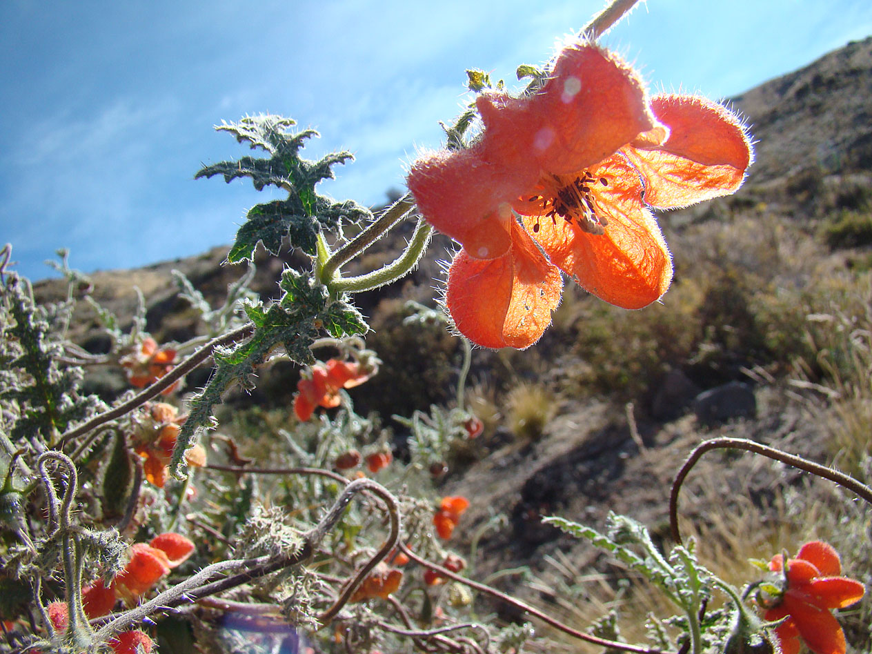 A nettle vine, high in the Cordillera Chilca of Peru. In context at